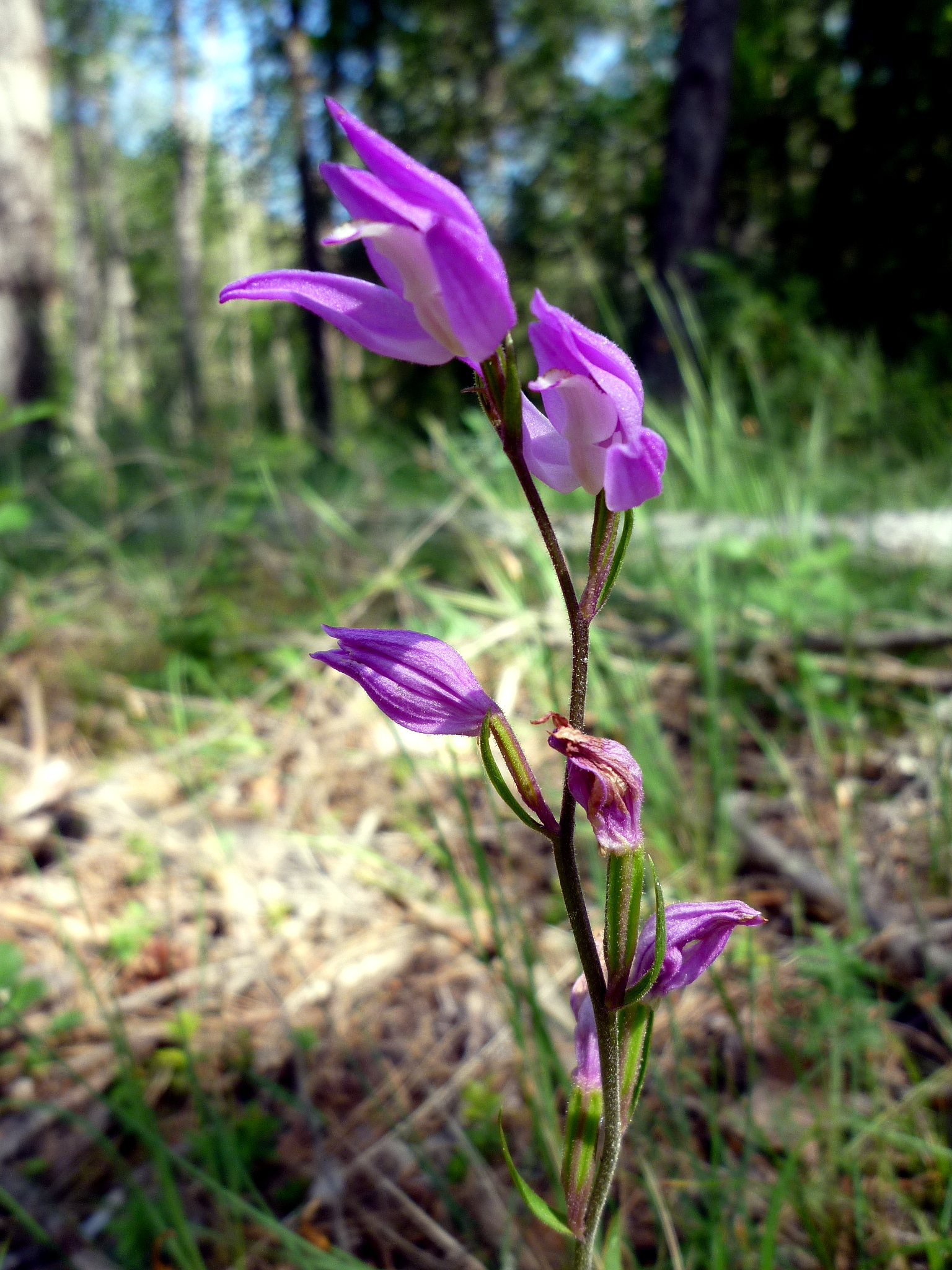 Cephalanthera rubra . In Pinós (Solsonès - Catalunya). To 610 m. altitude